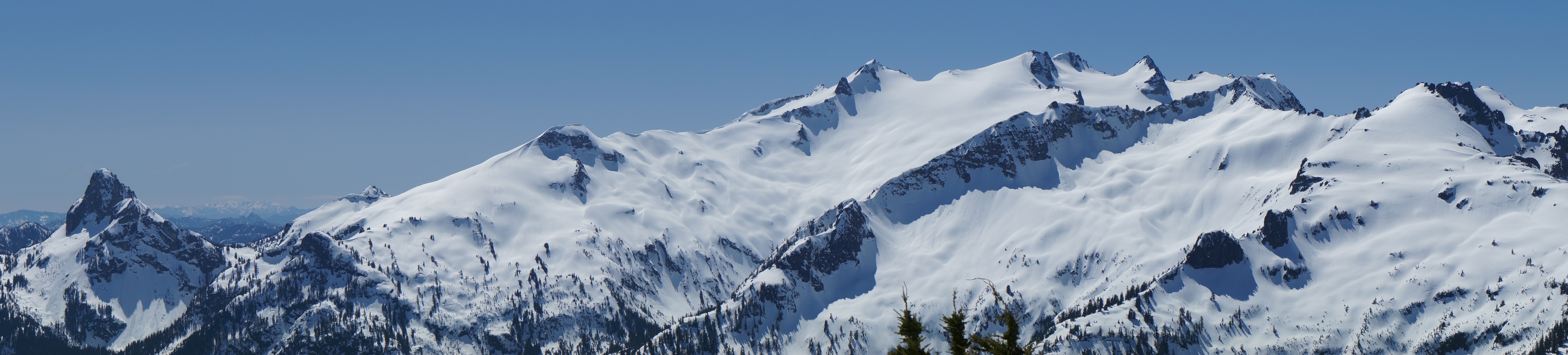 Panorama of Mt Daniel and Cathedral Rock